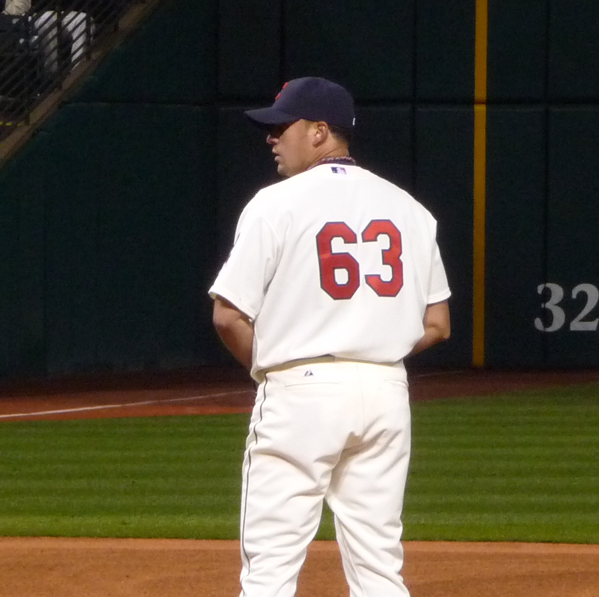 Rafael Betancourt pitches during the Cleveland Indians' 2009 home opener against the Toronto Blue Jays.